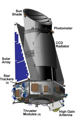 Illustration of Kepler Spacecraft with labels